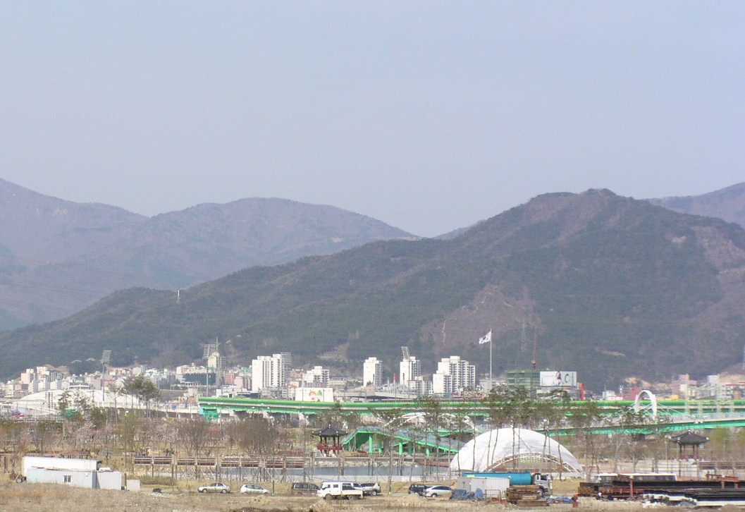 Downtown area of the city of Yangsan